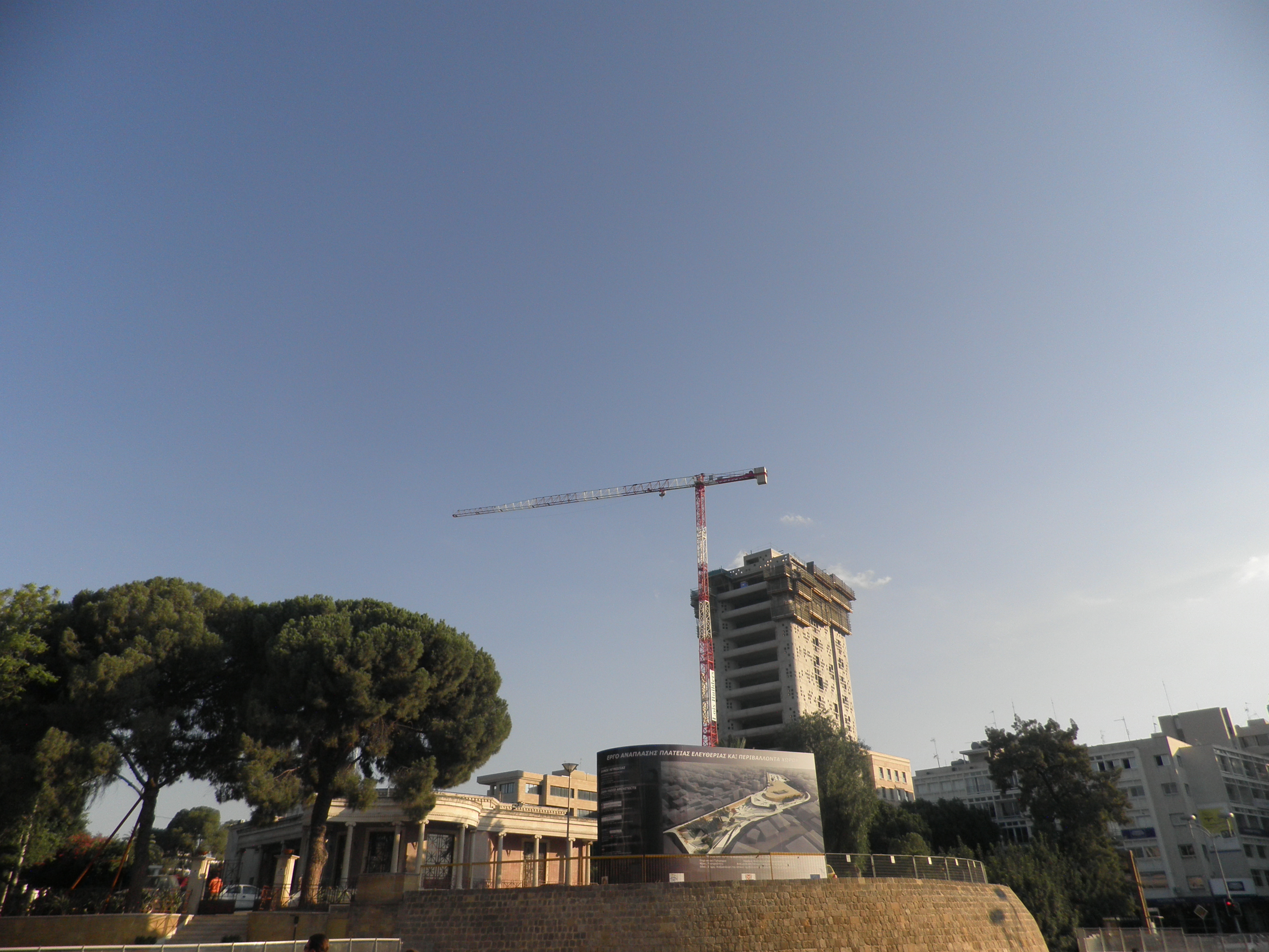 Eleftheria Square, Nicosia, August 2011